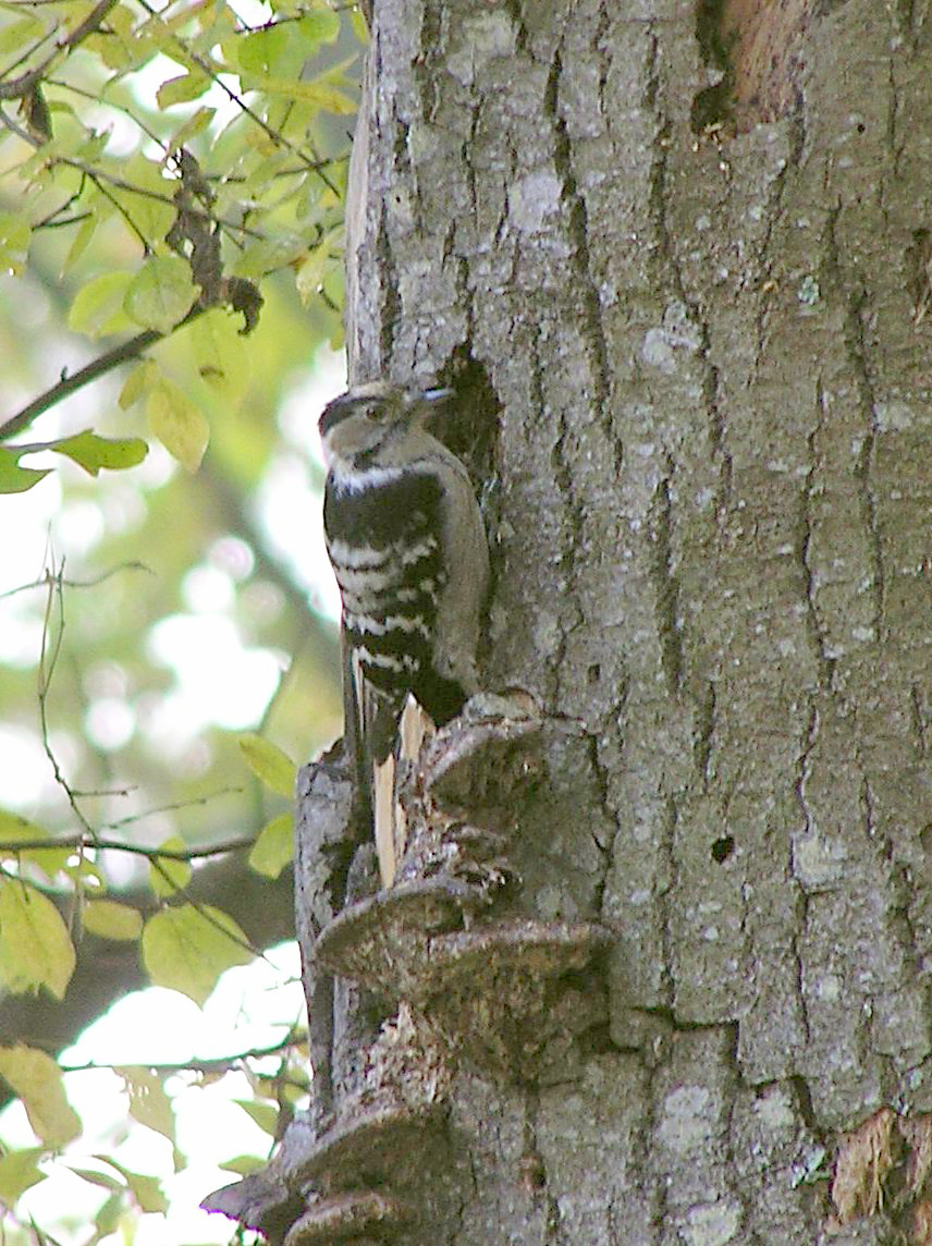 Dendrocopos minor female